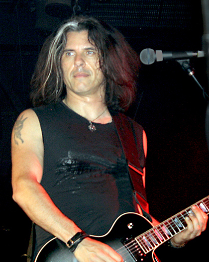 Photograph of guitarist Alex Skolnick